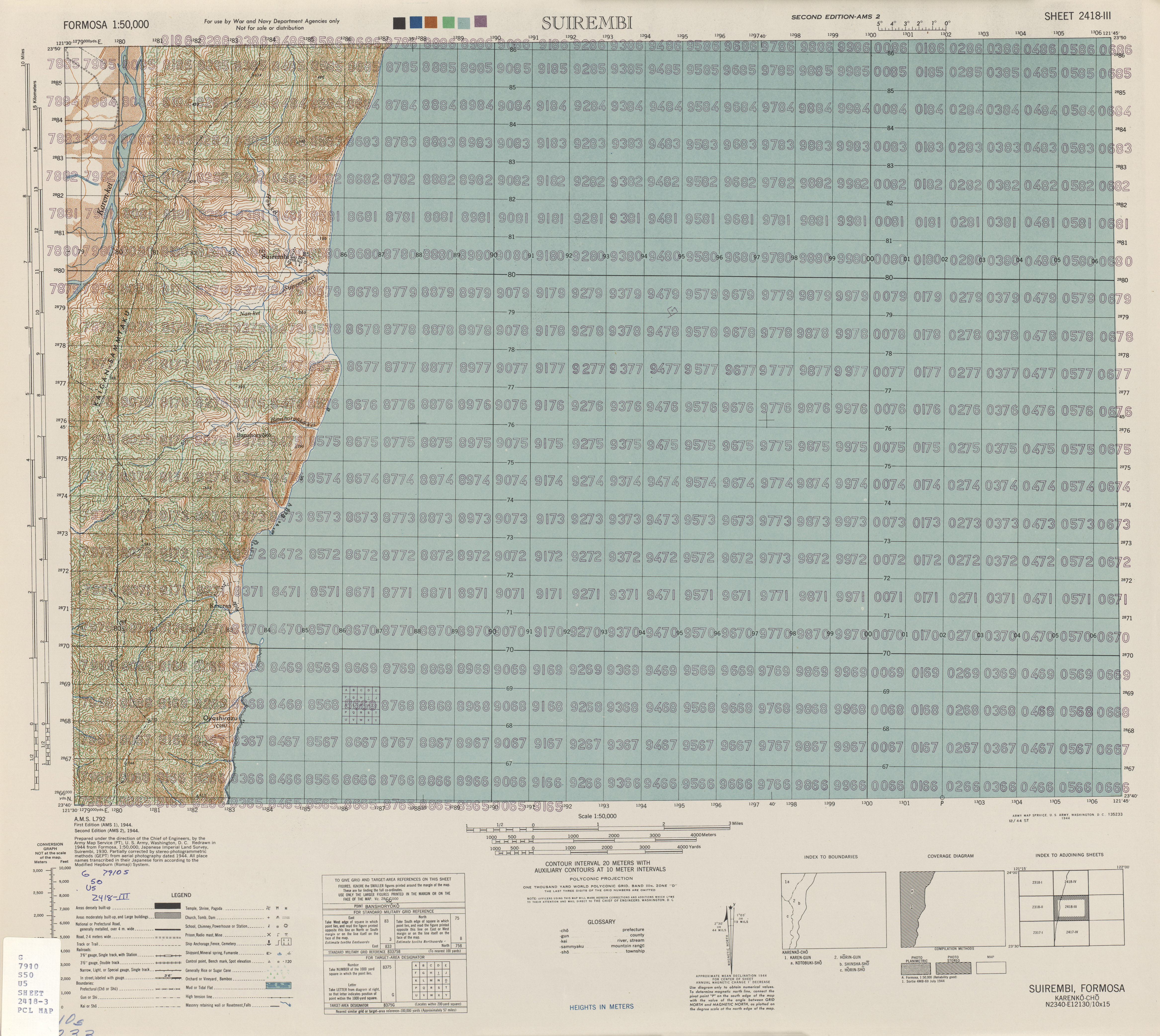 Map from Formosa (Taiwan) 1:50,000 AMS Series L792